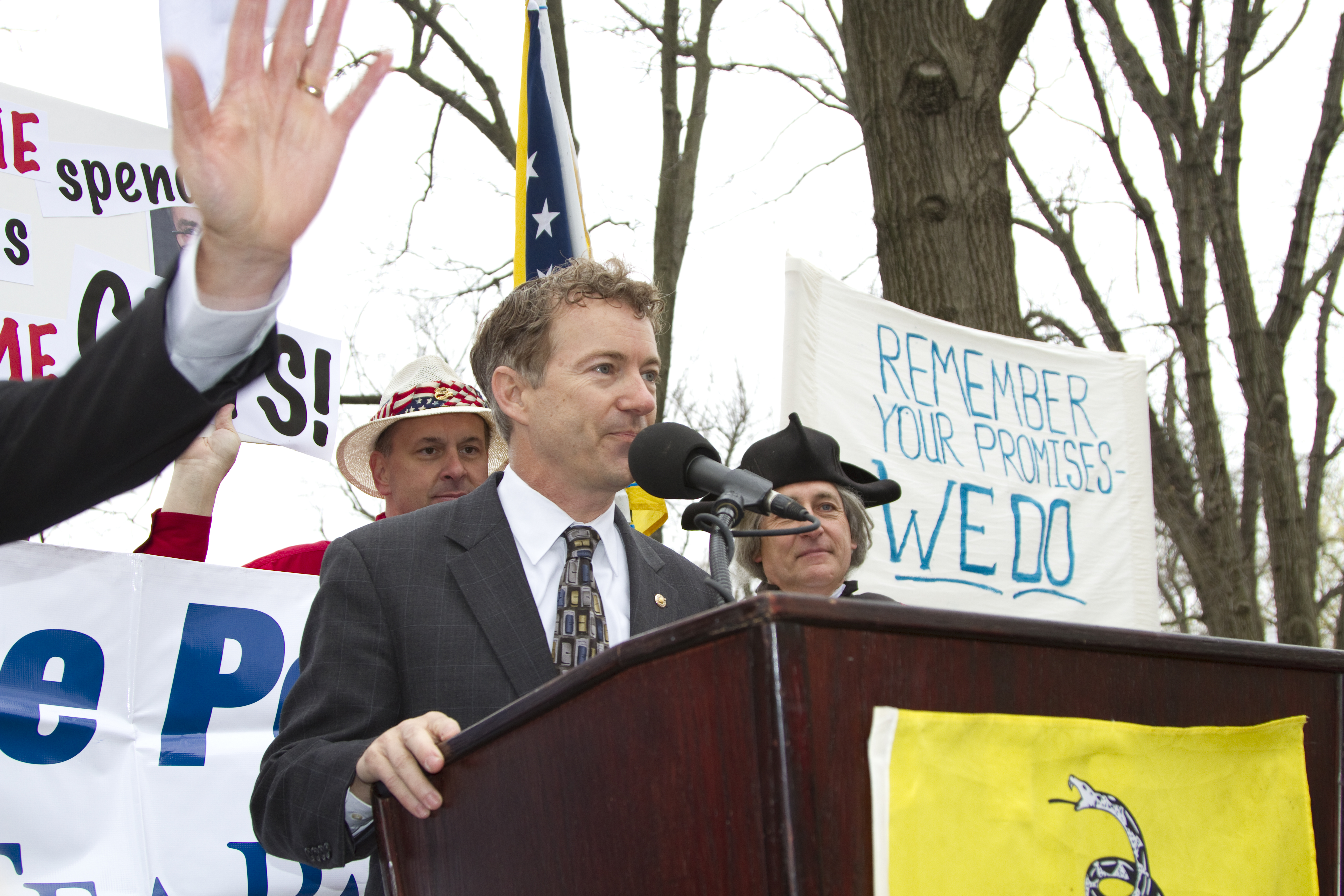 Senator Rand Paul (R-Ky) speaking during the Tea Party Patriots' "Continuing the Revolution Rally," near the Taft Memorial. Washington, DC.